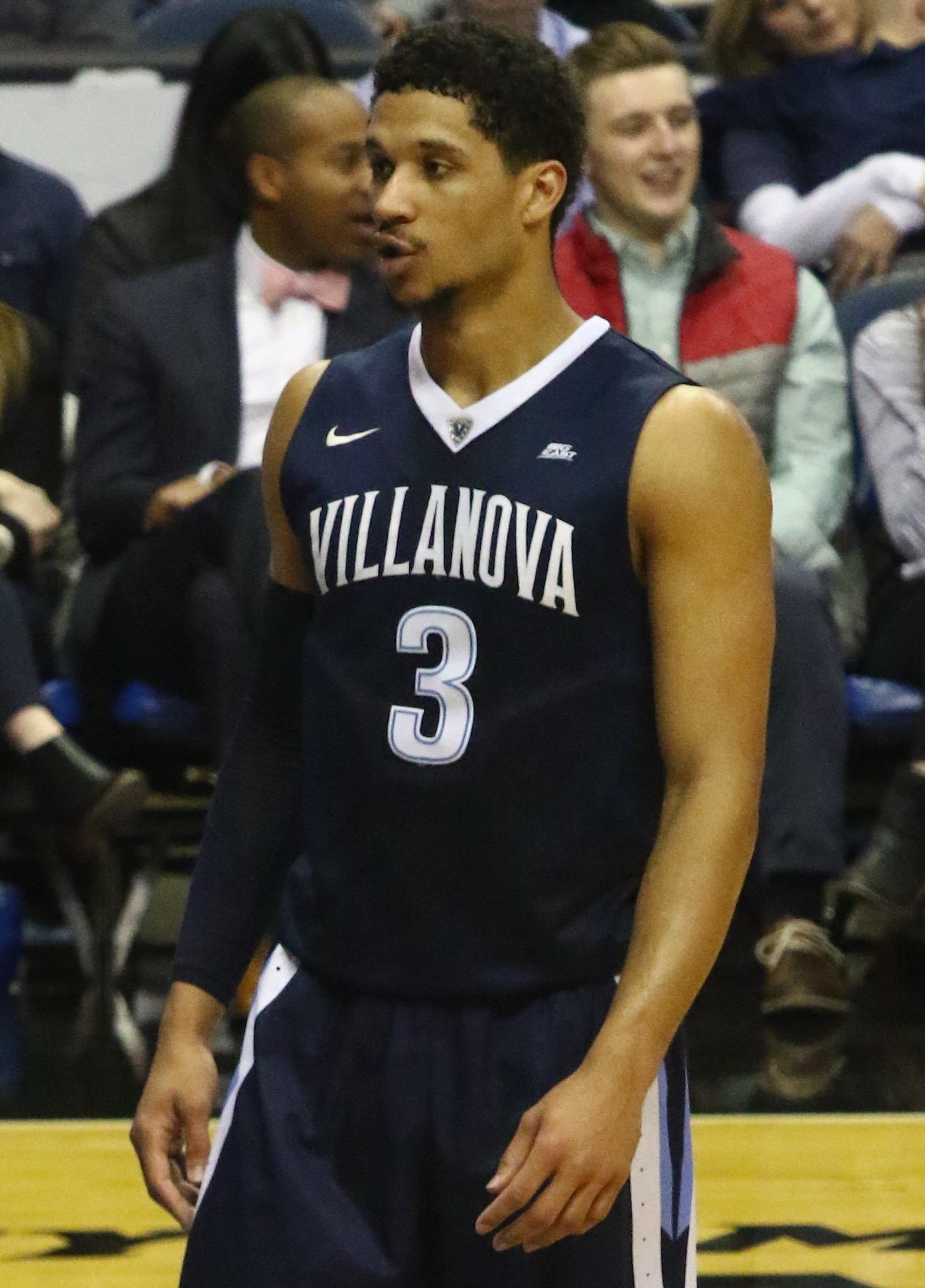 Josh Hart for the w:2016–17 Villanova Wildcats men's basketball team at Allstate Arena